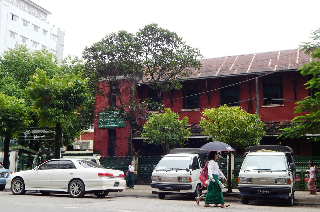 Basic Education High School No. 2 Botataung, Yangon, Burma